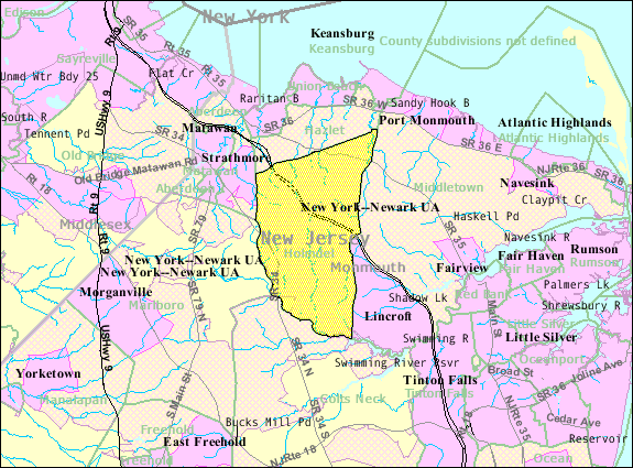 Census Bureau map of Holmdel Township